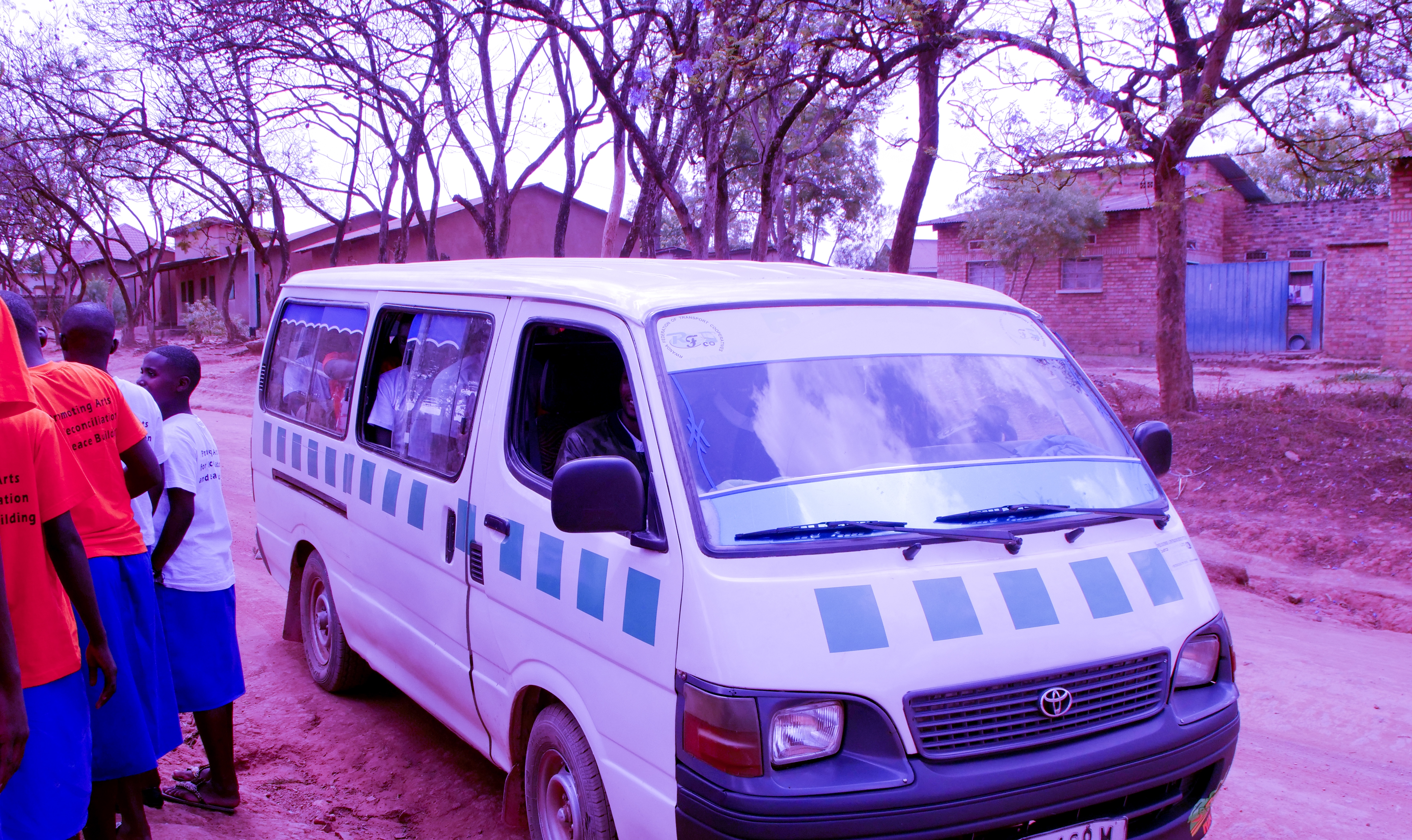 This is an image with the theme "Africa on the Move or Transport" from: Rwanda